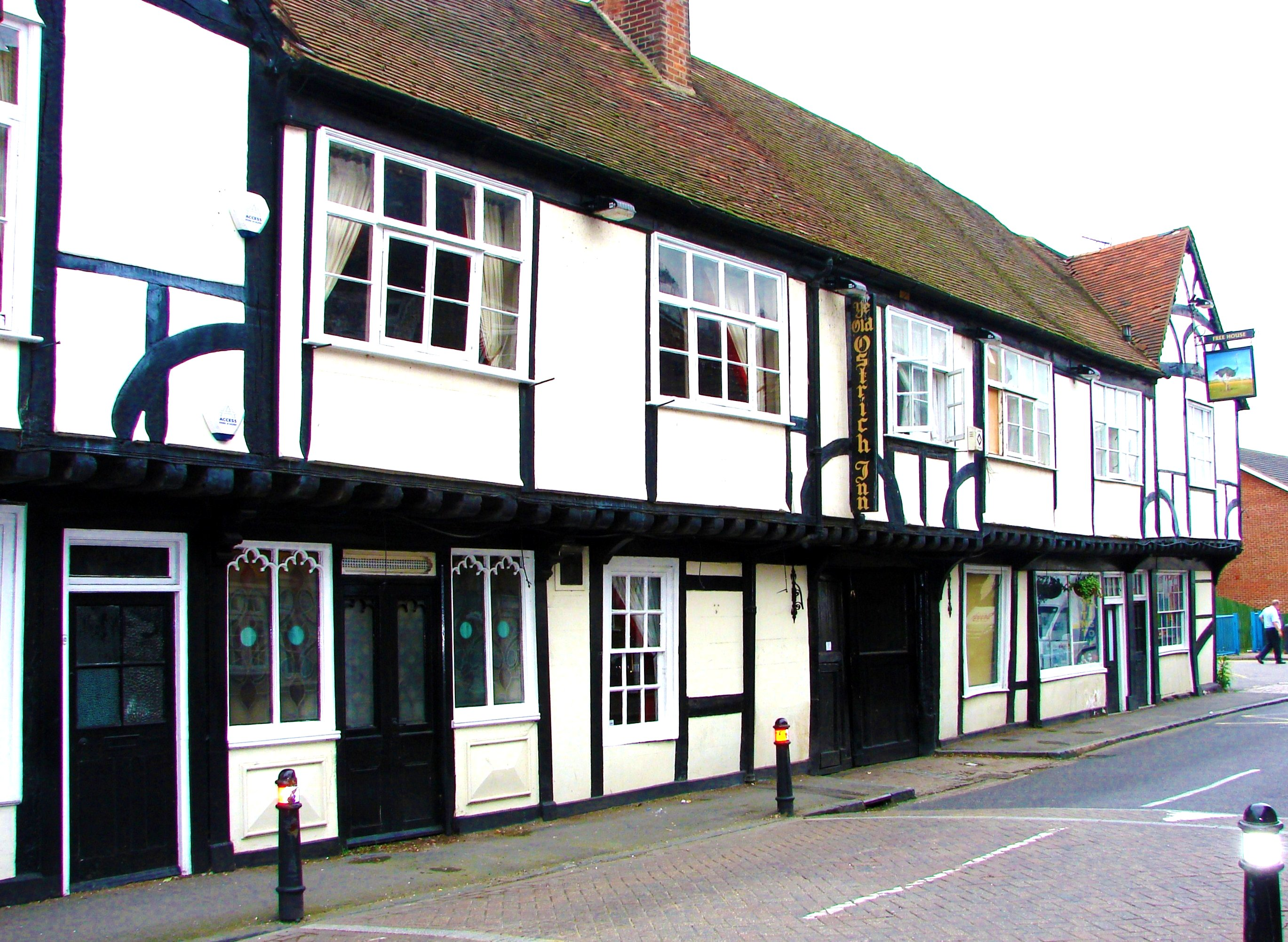 The Ostrich Inn on Colnbrook, Berkshire main street.